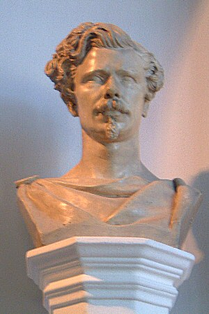 Bust of Barend Cornelis Koekkoek